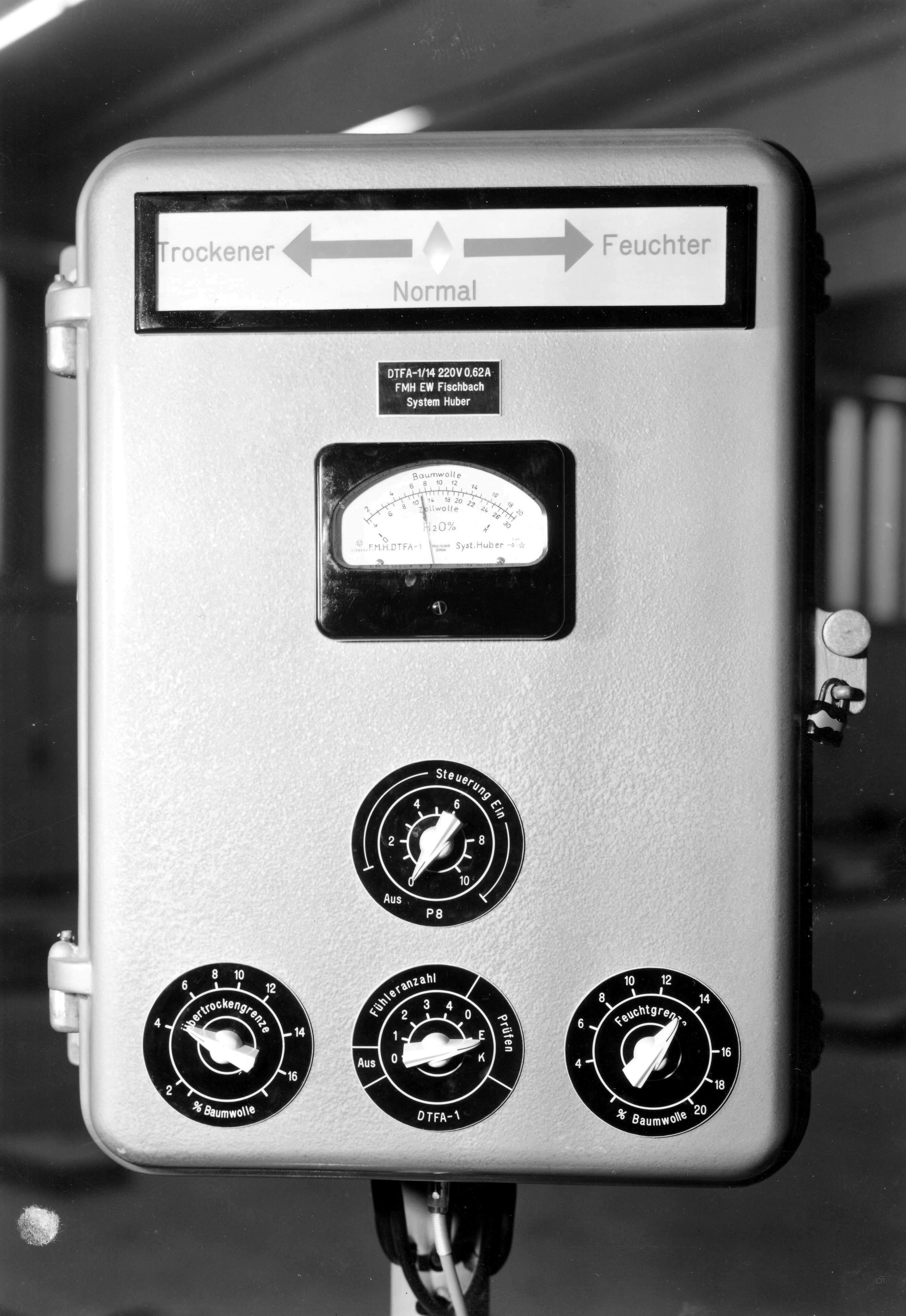 Moisture meter (DFTA-1/14 System Huber), [5] by which the production of textiles could be significantly increased by the ongoing control of residual moisture at the running textile web. Invented by Franz Josef Huber.